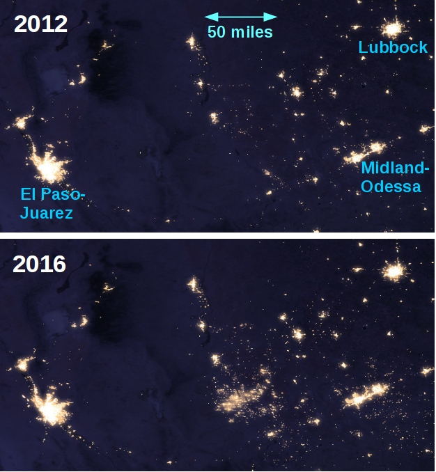 The night time view of the earth was made possible by the "day-night band" of the Visible Infrared Imaging Radiometer Suite. VIIRS detects light in a range of wavelengths from green to near-infrared and uses filtering techniques to observe dim signals such as gas flares, auroras, wildfires, city lights, and reflected moonlight. In this case, auroras, fires, and other stray light have been removed. The 2012 and 2016 data is processed so that researchers can compare and contrast light sources over the years. (Description based on information provided by NASA Eath Observatory)